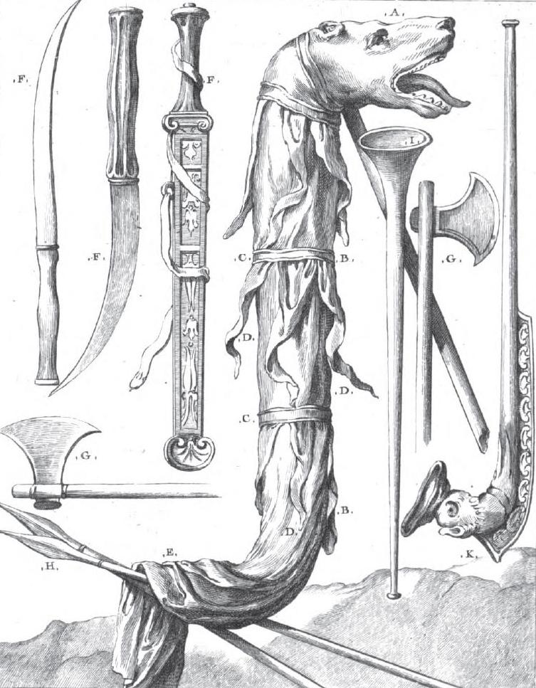 Specific Dacian Draco, Dacian weapons and Dacian trumpet as they appear in the book Costume des anciens peuples, à l'usage des artistes by Michel-François Dandré-Bardon (1700-1783) printed in Paris, 1774. Drawn based on Trajan's Column